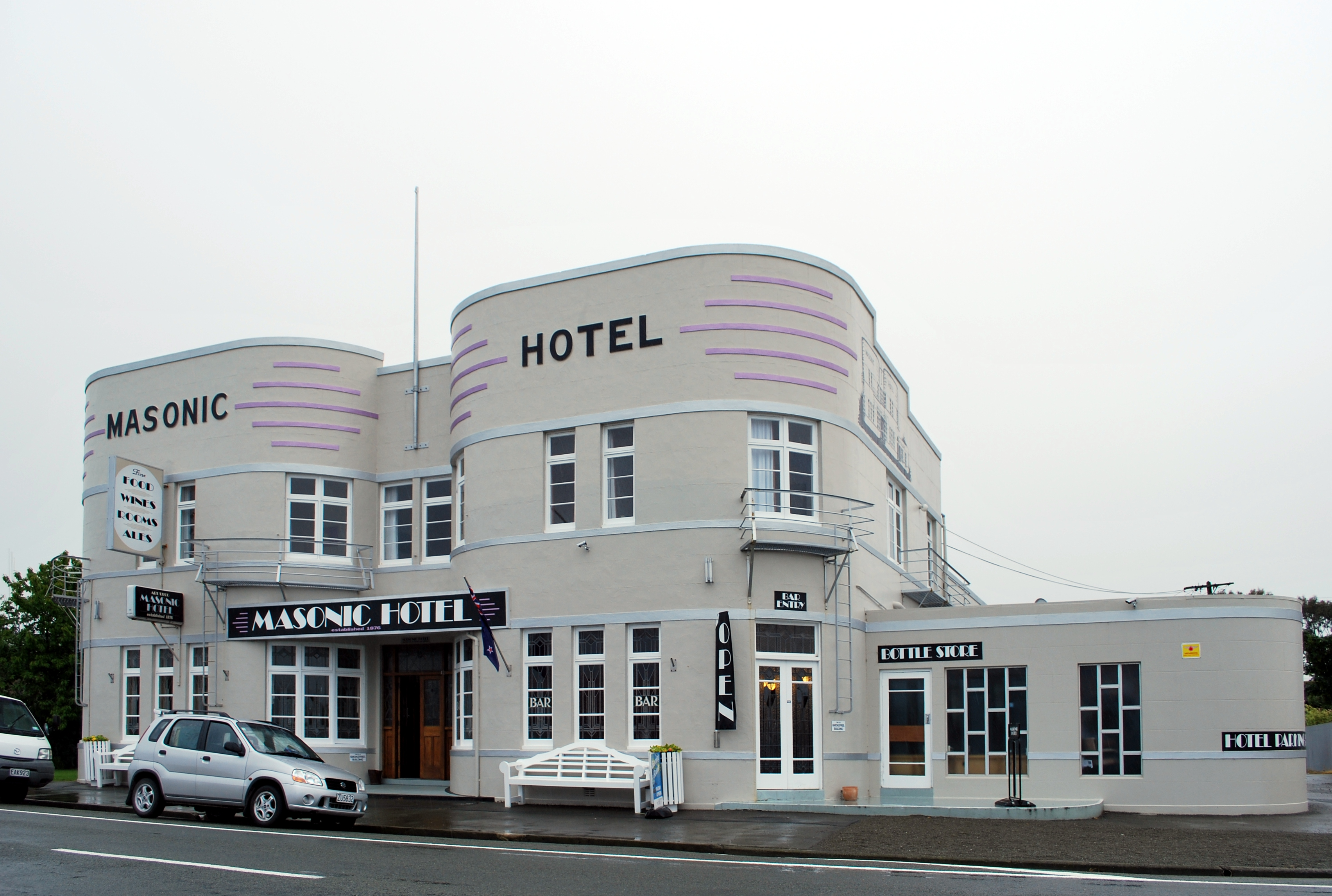 The art-deco Masonic Hotel in Saint Andrews, Canterbury, New Zealand